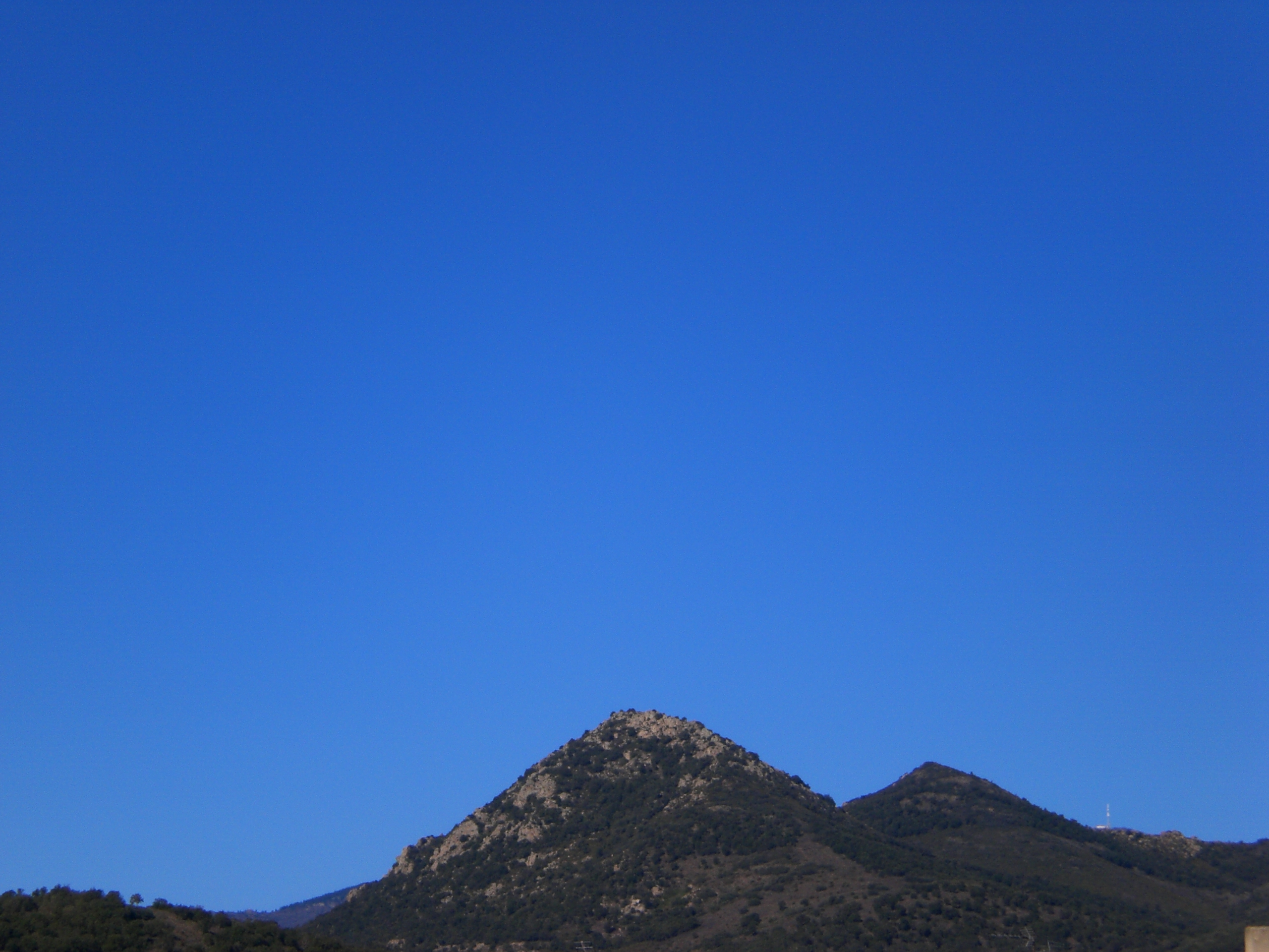 mountain